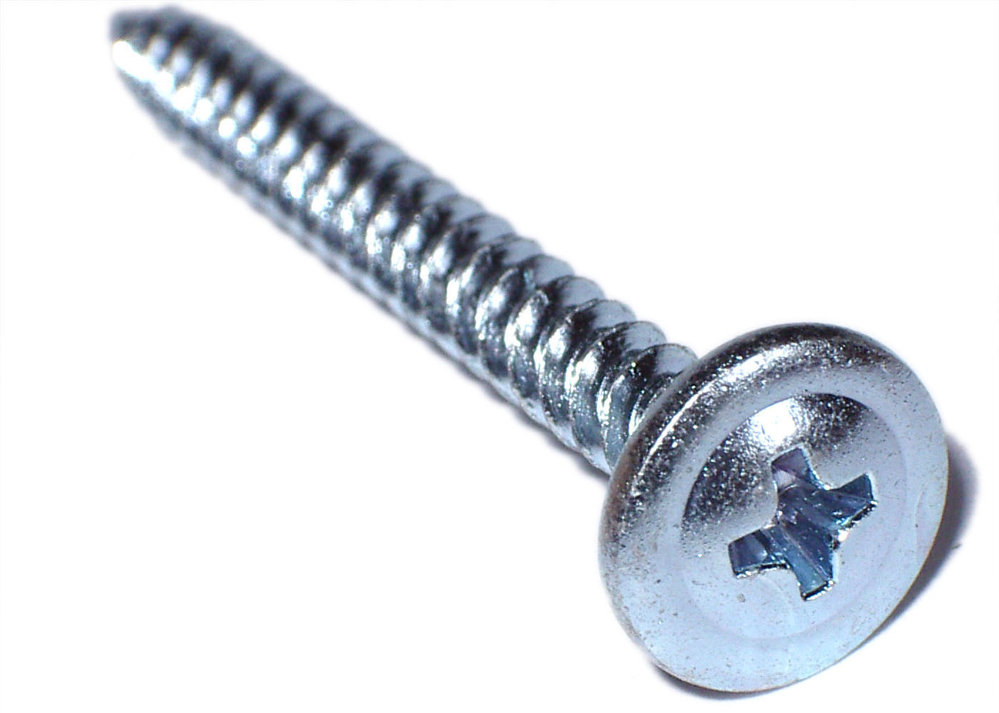 Phillips-head screw